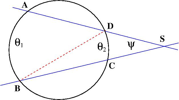 Two secants cross outside a circle